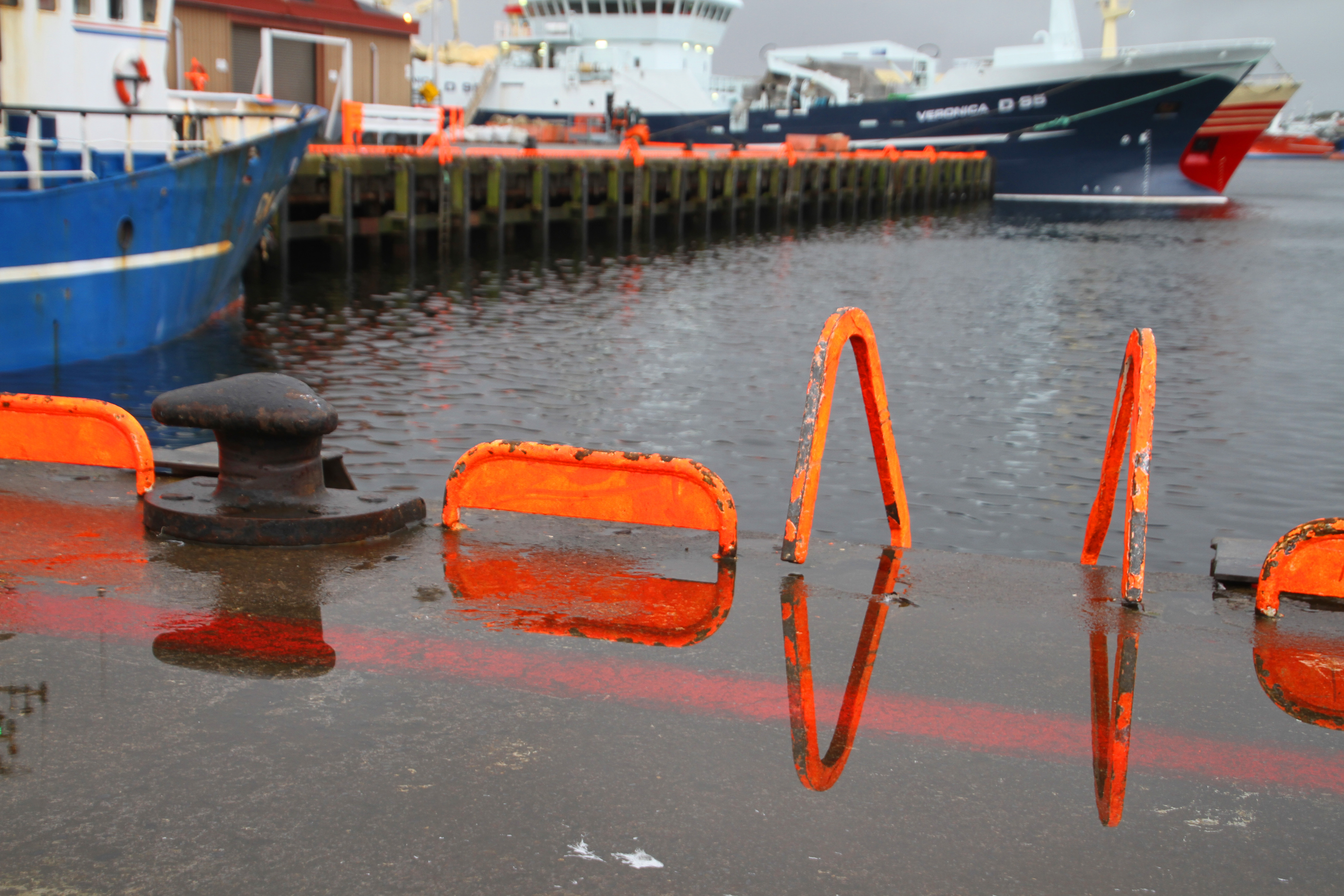 Killybegs Harbour